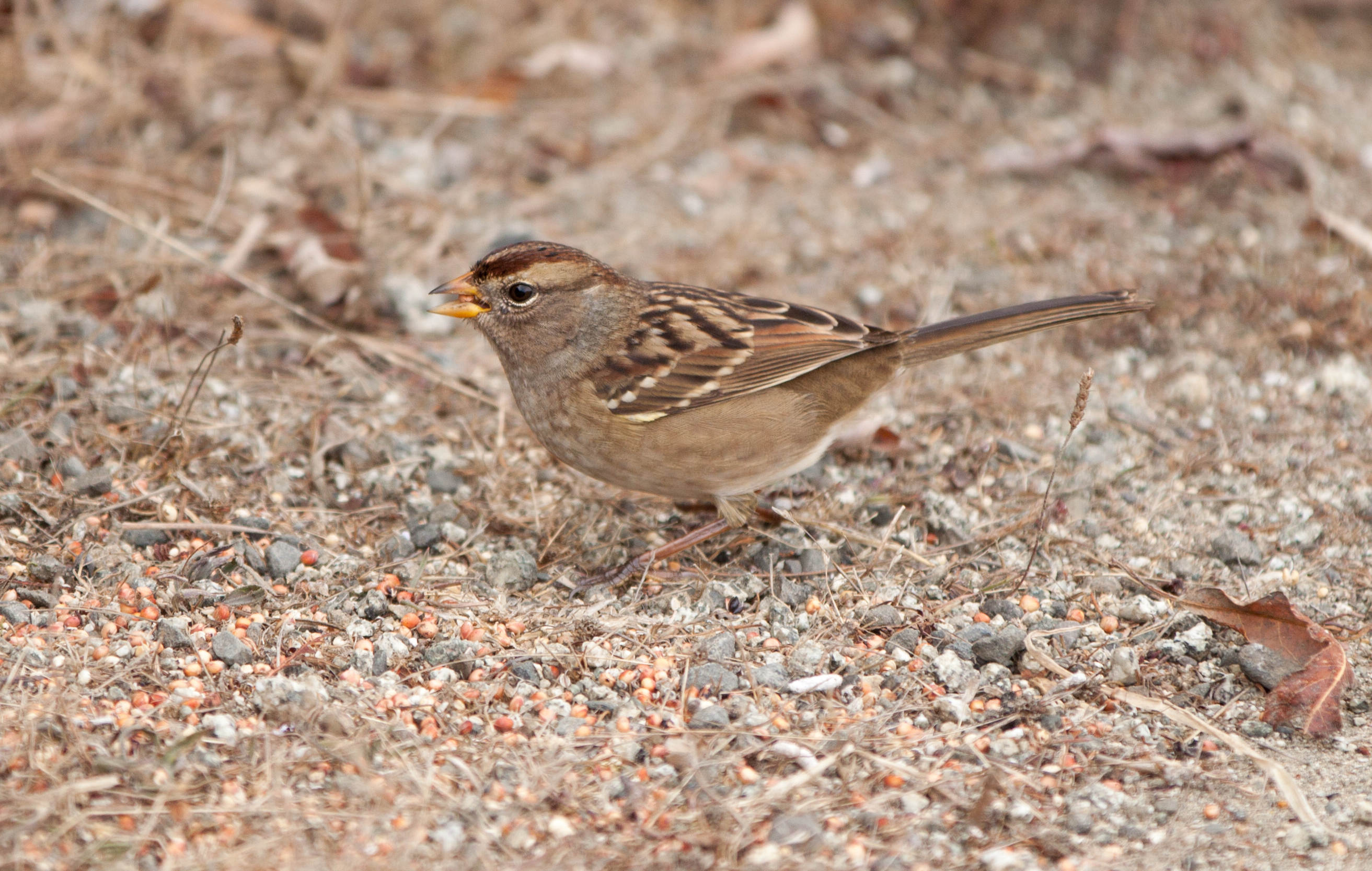 White-crowned Sparrow ♀ (Zonotrichia leucophrys) at Owl Canyon, Bodega Bay, California.